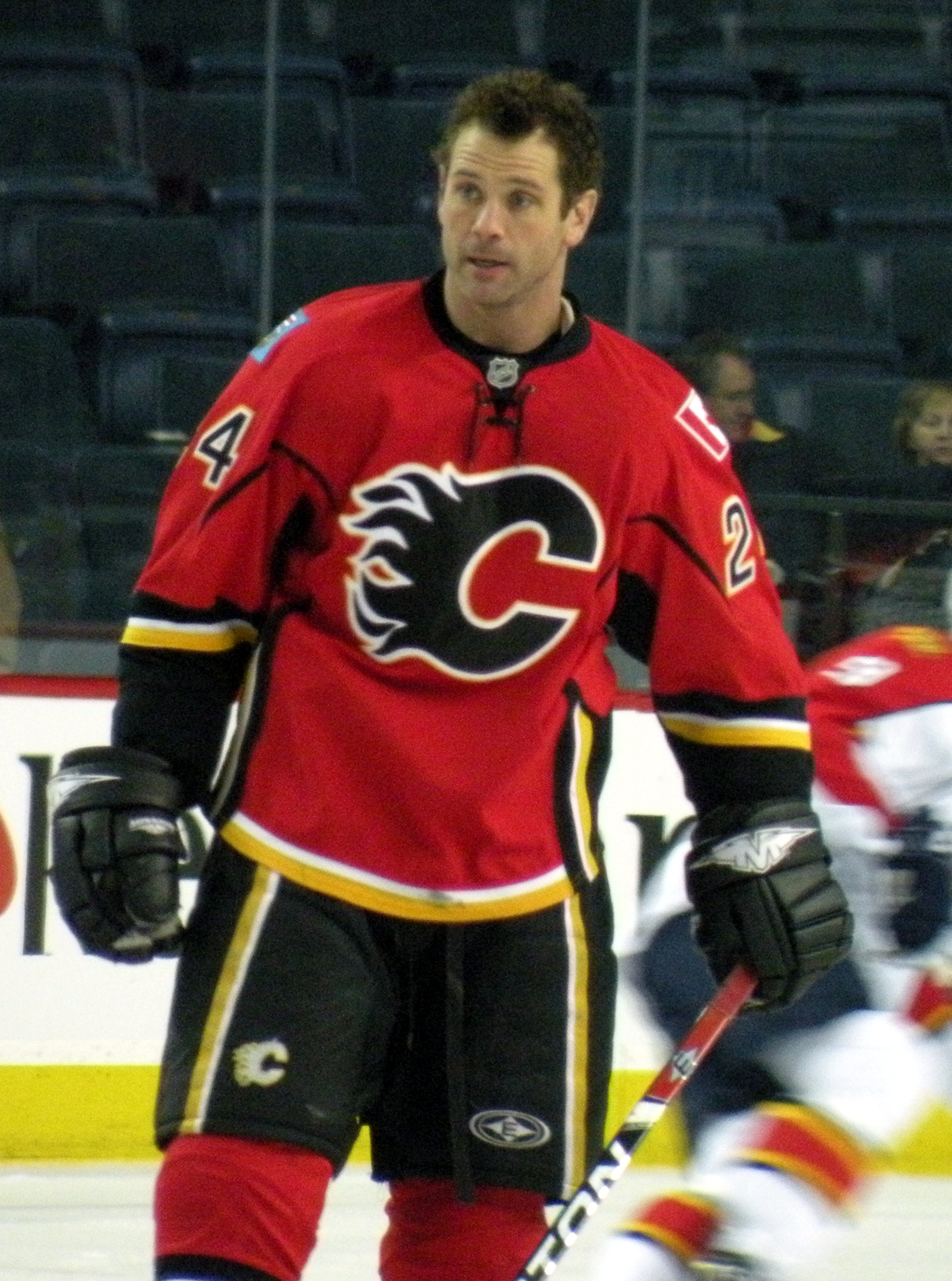 Forward Craig Conroy during warm-up prior to a National Hockey League game against the Florida Panthers in Calgary.